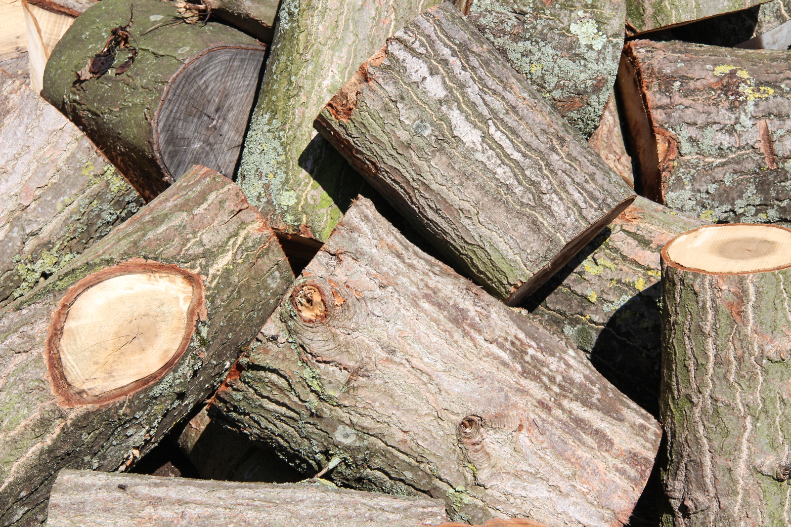 Sawn logs of wood